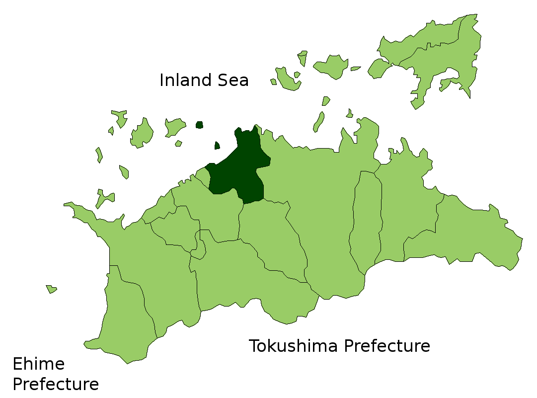 Map of Kagawa Prefecture highlighting Sakaide city. Borders of map as of October, 2006. (blank map used from [1]) See also Image:KagawaMapCurrent.png